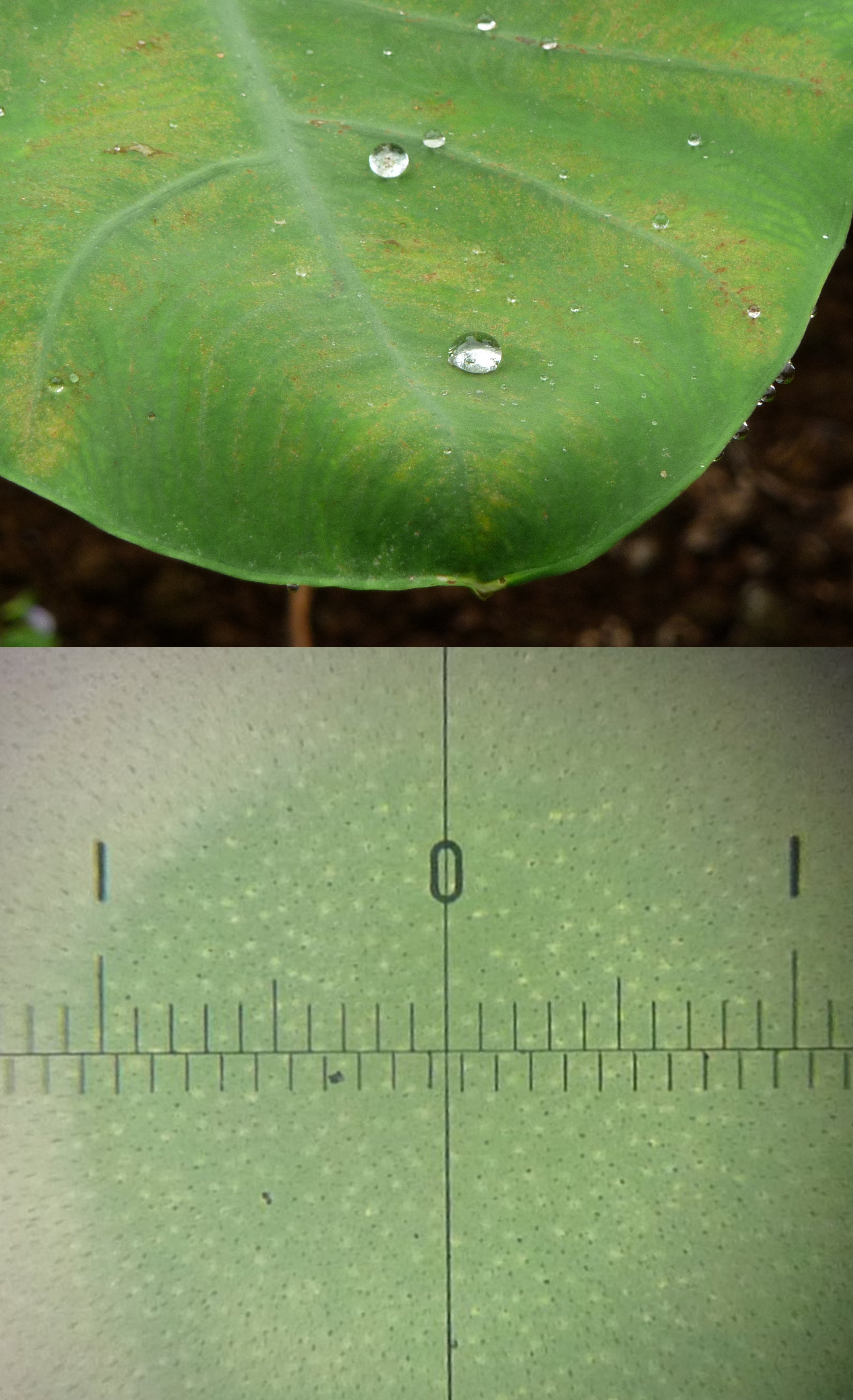 Lotus effect on leaf of taro (upper), and leaf surface magnify (0-1 is one millimetre span) (lower)